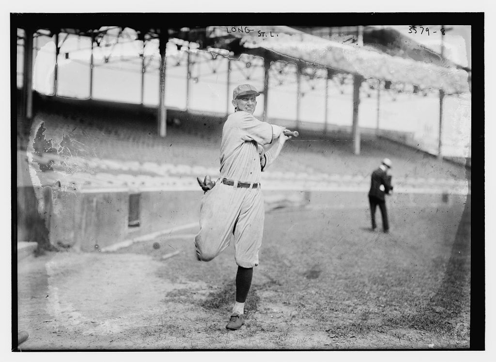 Bain News Service,, publisher. [Tom Long, St. Louis NL (baseball)] [1915] 1 negative : glass ; 5 x 7 in. or smaller. Notes: Original data provided by the Bain News Service on the negatives or caption cards: Long St. L. Corrected title and date based on research by the Pictorial History Committee, Society for American Baseball Research, 2006. Forms part of: George Grantham Bain Collection (Library of Congress). Format: Glass negatives. Repository: Library of Congress, Prints and Photographs Division, Washington, D.C. 20540 USA, General information about the Bain Collection is available at Higher resolution image is available (Persistent URL): Call Number: LC-B2- 3579-8